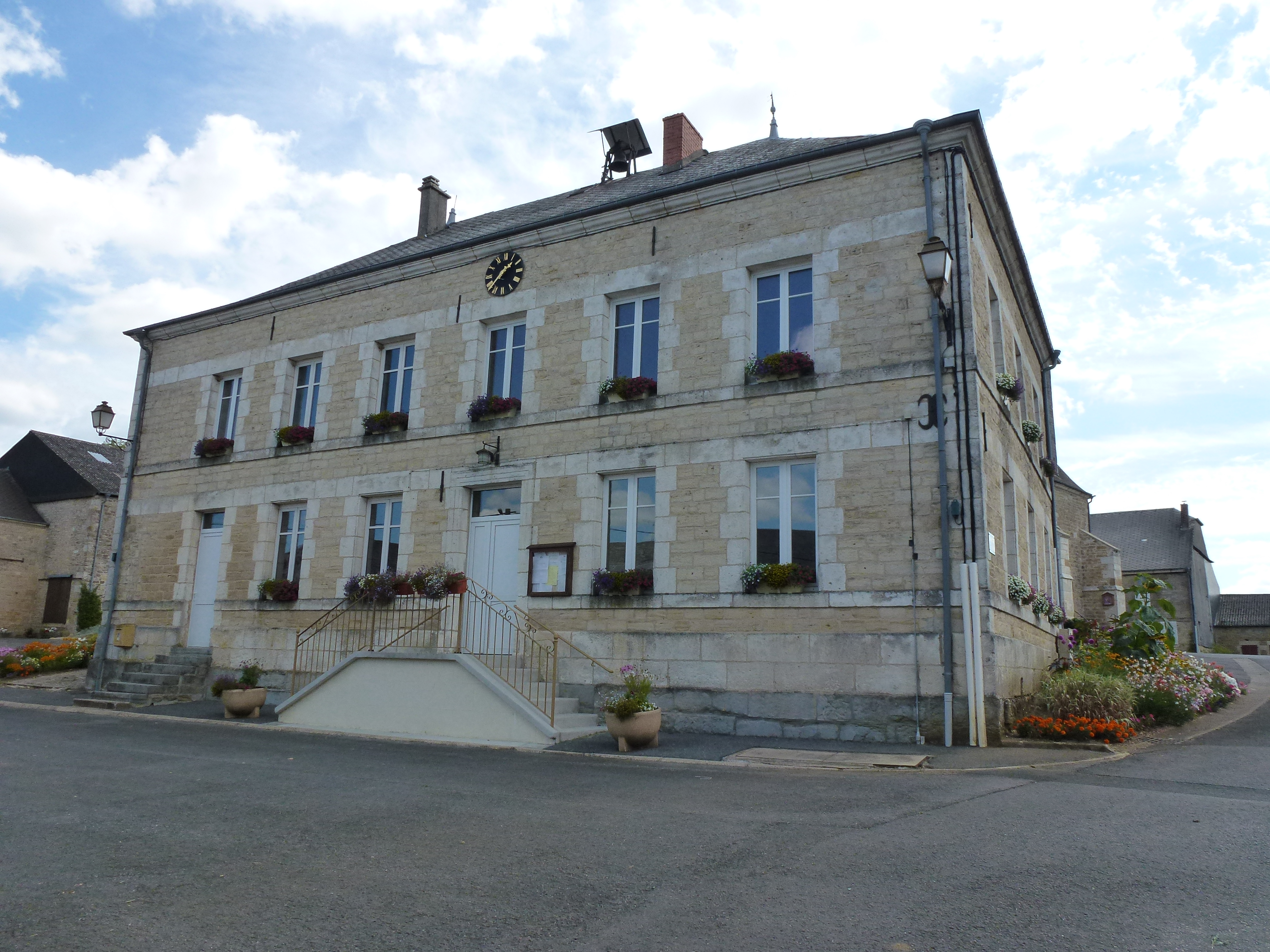 Flaignes (Ardennes) mairie